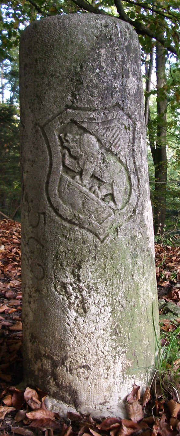 Boundary stone of 1768 of Further Austria, on Salhöhe Pass/Switzerland. The back side looks like this